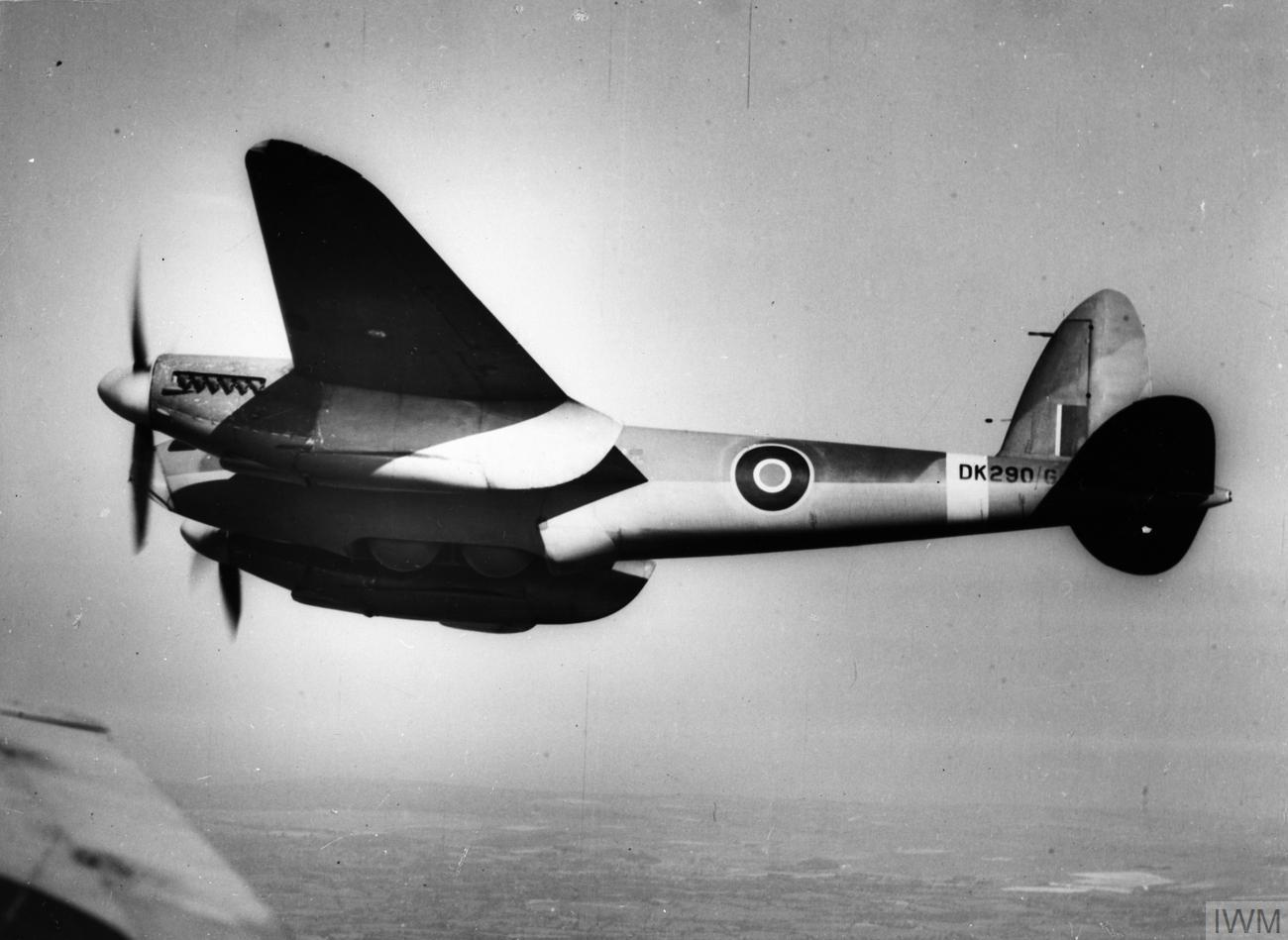 De Havilland Mosquito B Mark IV development aircraft, DK338, in flight after completion. DK338 served with No. 105 Squadron RAF as 'GB-O', and took part in the successful low-level raid on the Phillips radio factory at Eindhoven, Holland, (Operation OYSTER) on 6 December 1942, led by the Squadron Commander, Wing Commander H.I.Edwards VC.